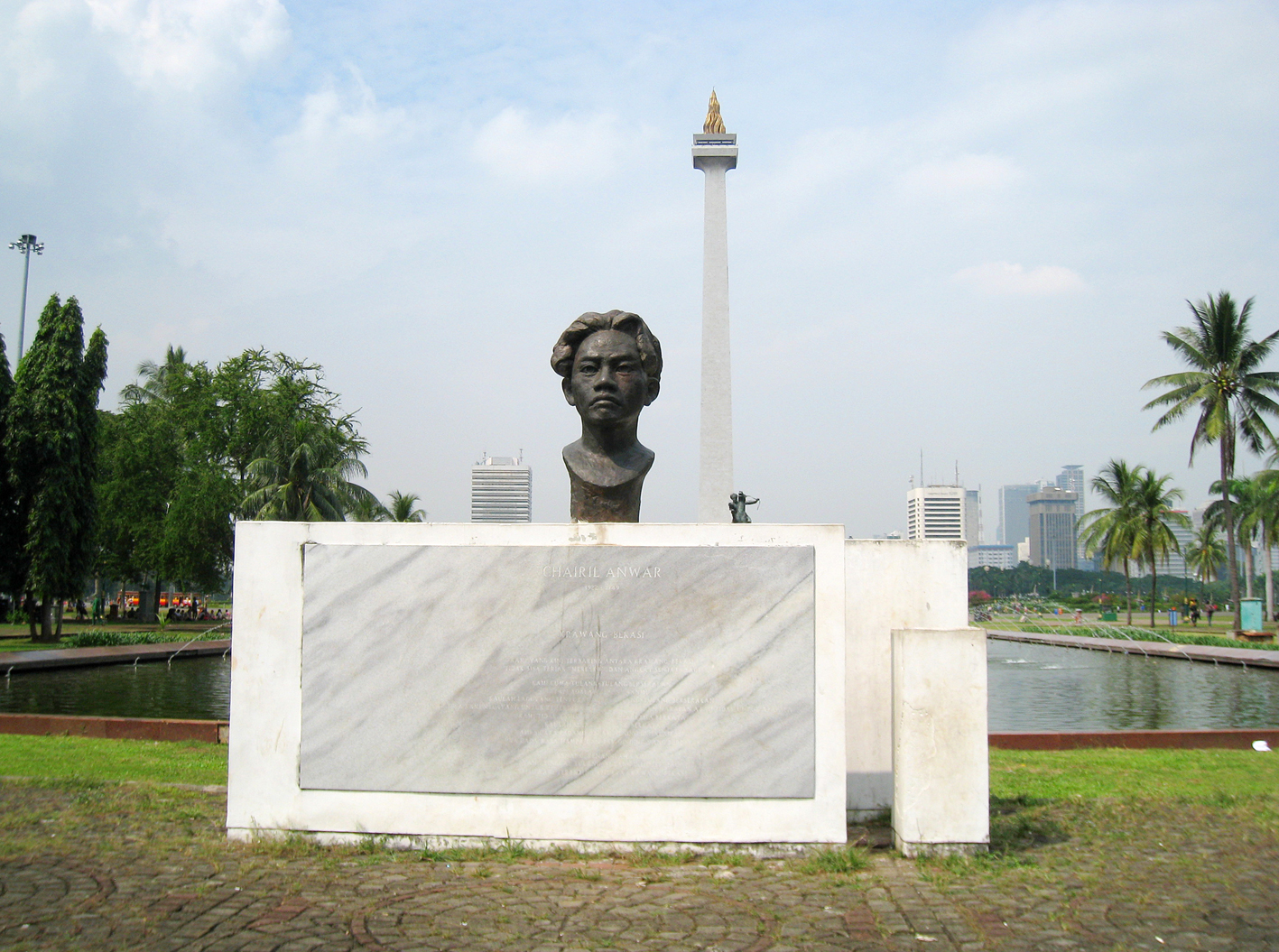 The bust statue and memorial of Indonesian famous nationalist poet, Chairil Anwar. Located at northern park of Merdeka Square, Central Jakarta.